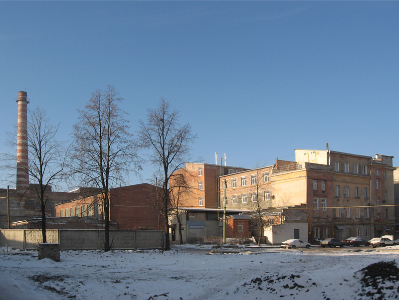 Old factory "Kinescope" in Antonovych Street in Lviv, Ukraine